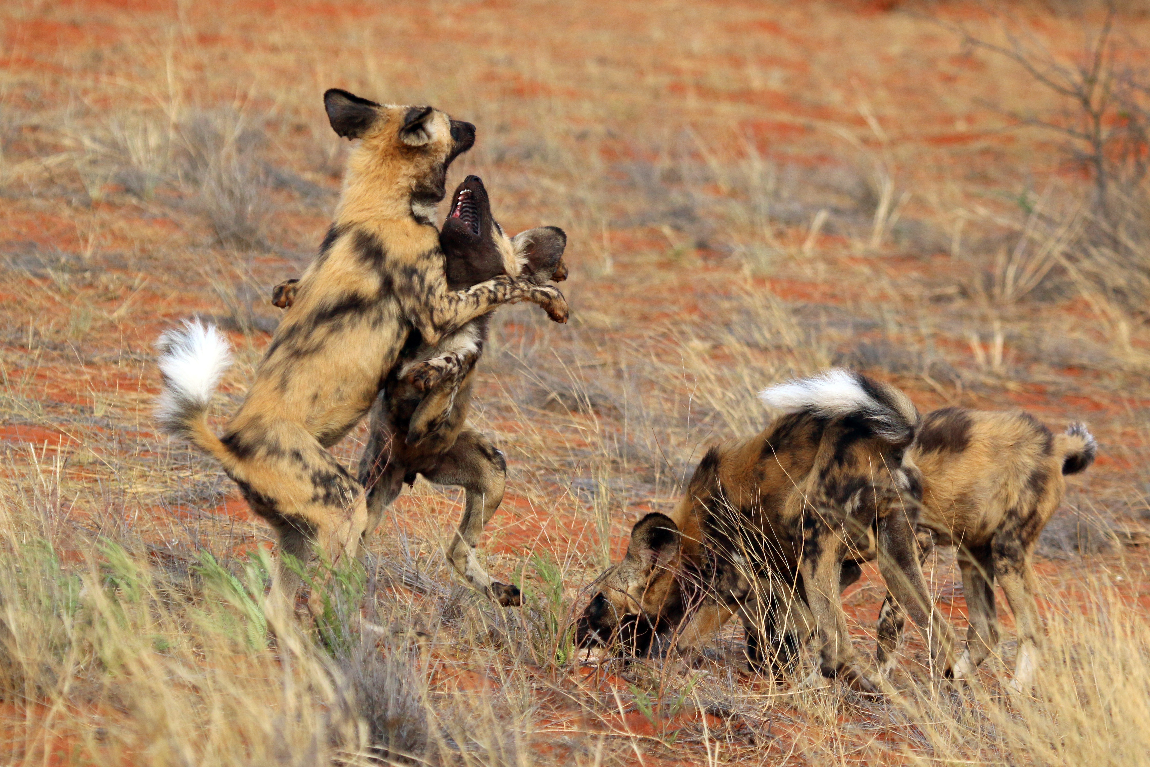 African wild dogs (Lycaon pictus pictus), Tswalu Kalahari Reserve, South Africa